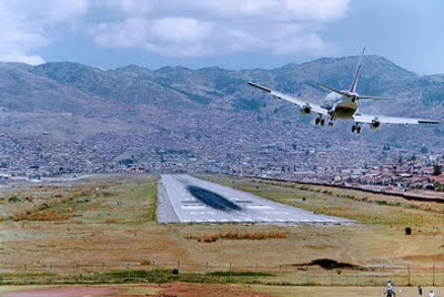 Cuzco Airport